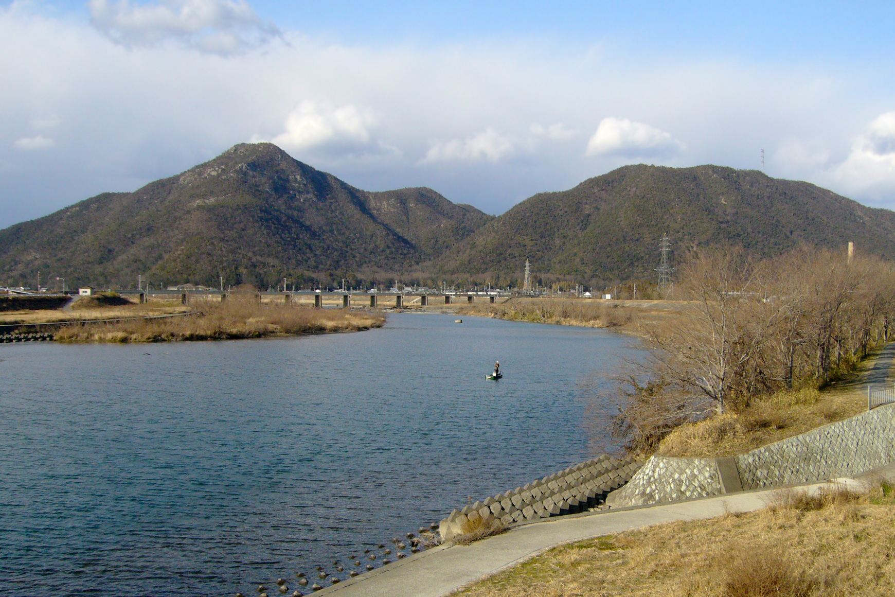 Chikusa River at Sakoshi in Ako, Hyogo prefecture, Japan